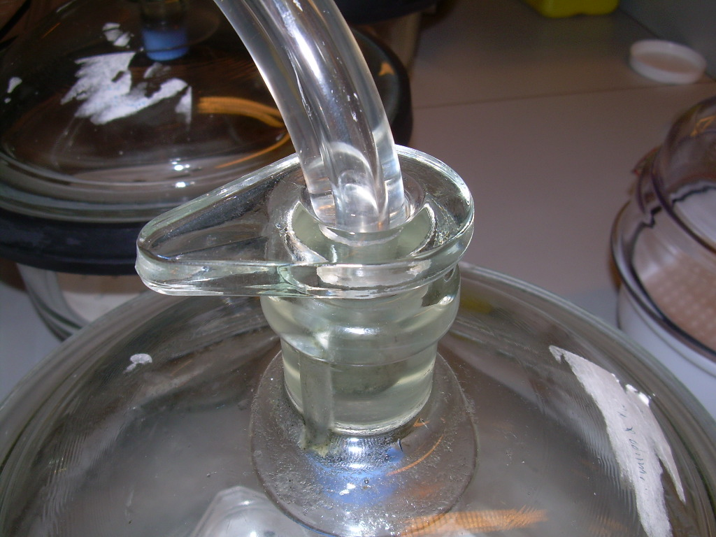 Desiccator top